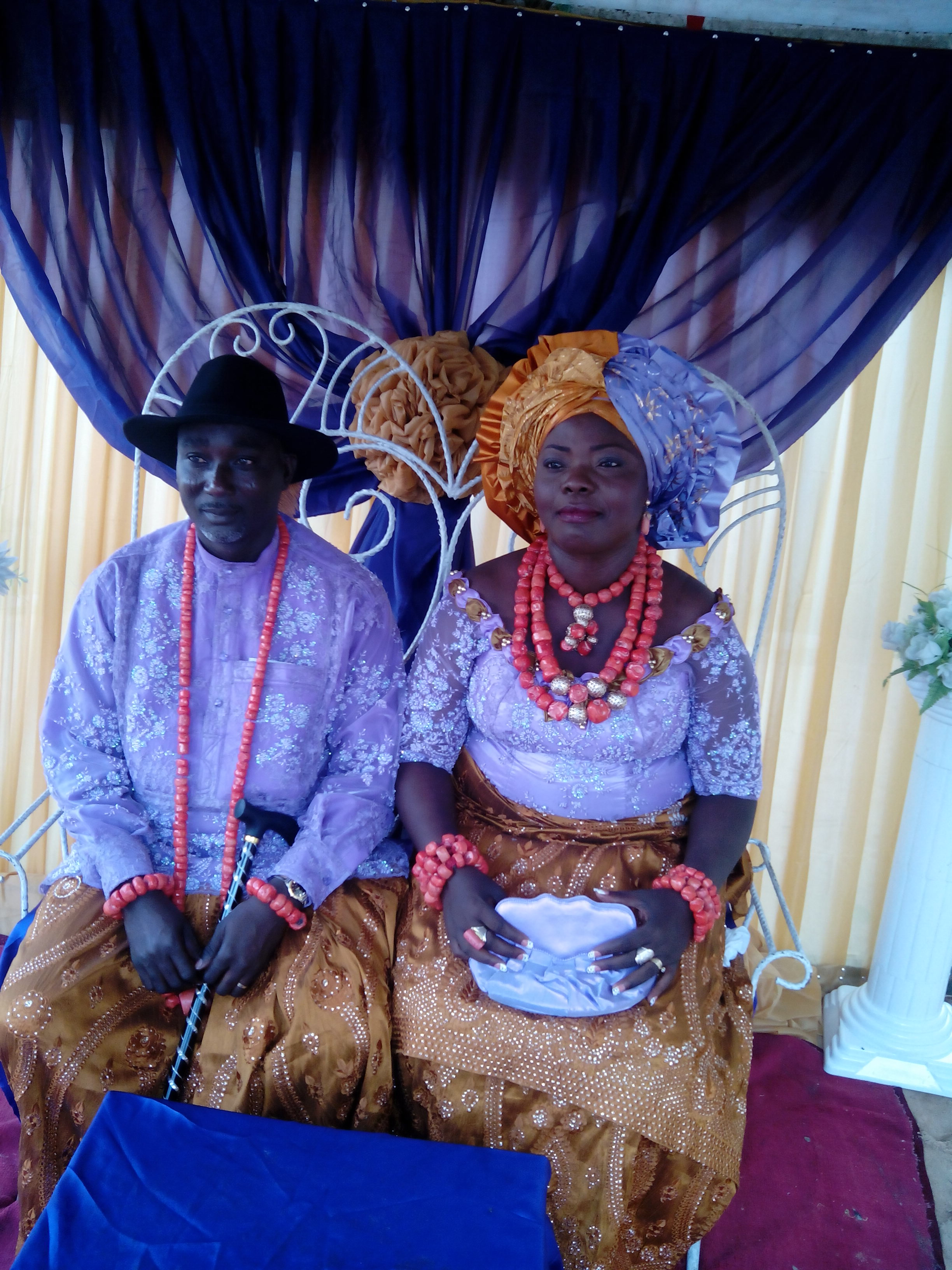 This is an image with the theme "Play" from: Nigeria